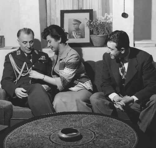 Zahedi family from left: fazlolah zahedi, homa (his daughter), ardeshir (his son)